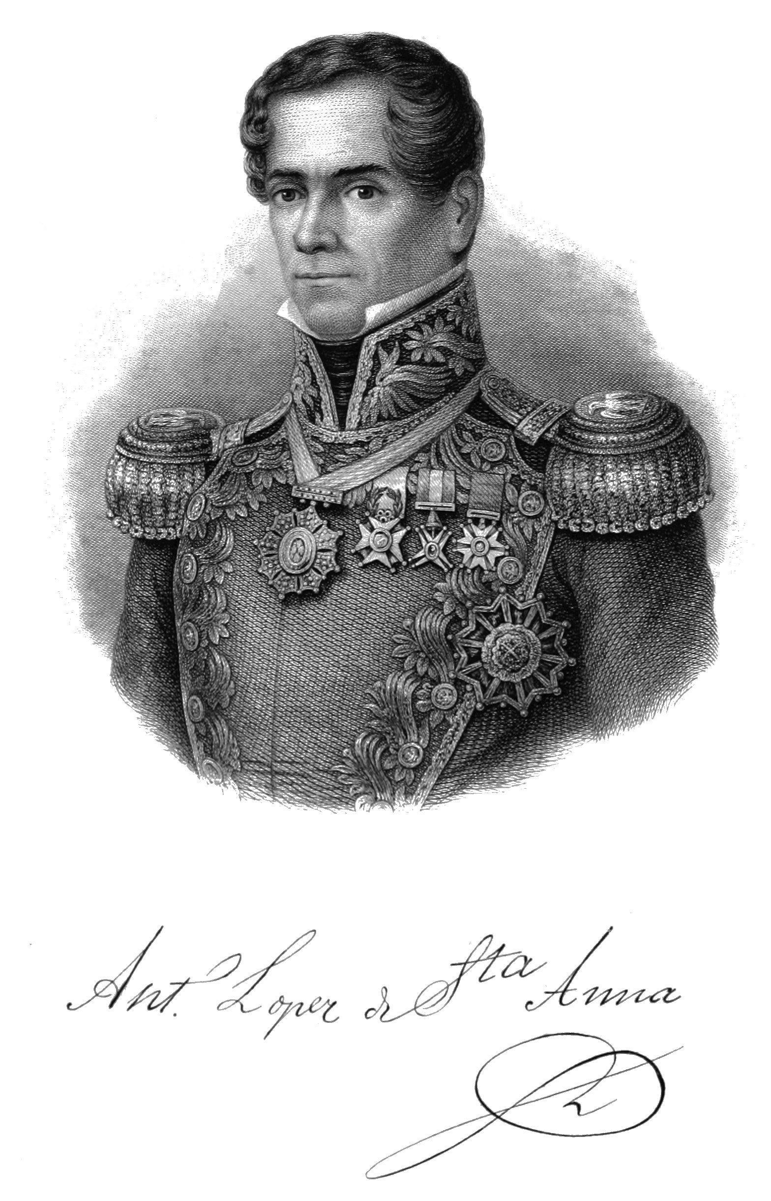 Antonio Lopez de Santa Anna